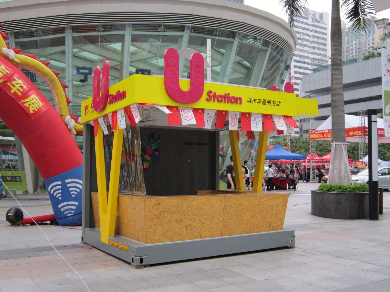 A U Station of Shenzhen Universiade